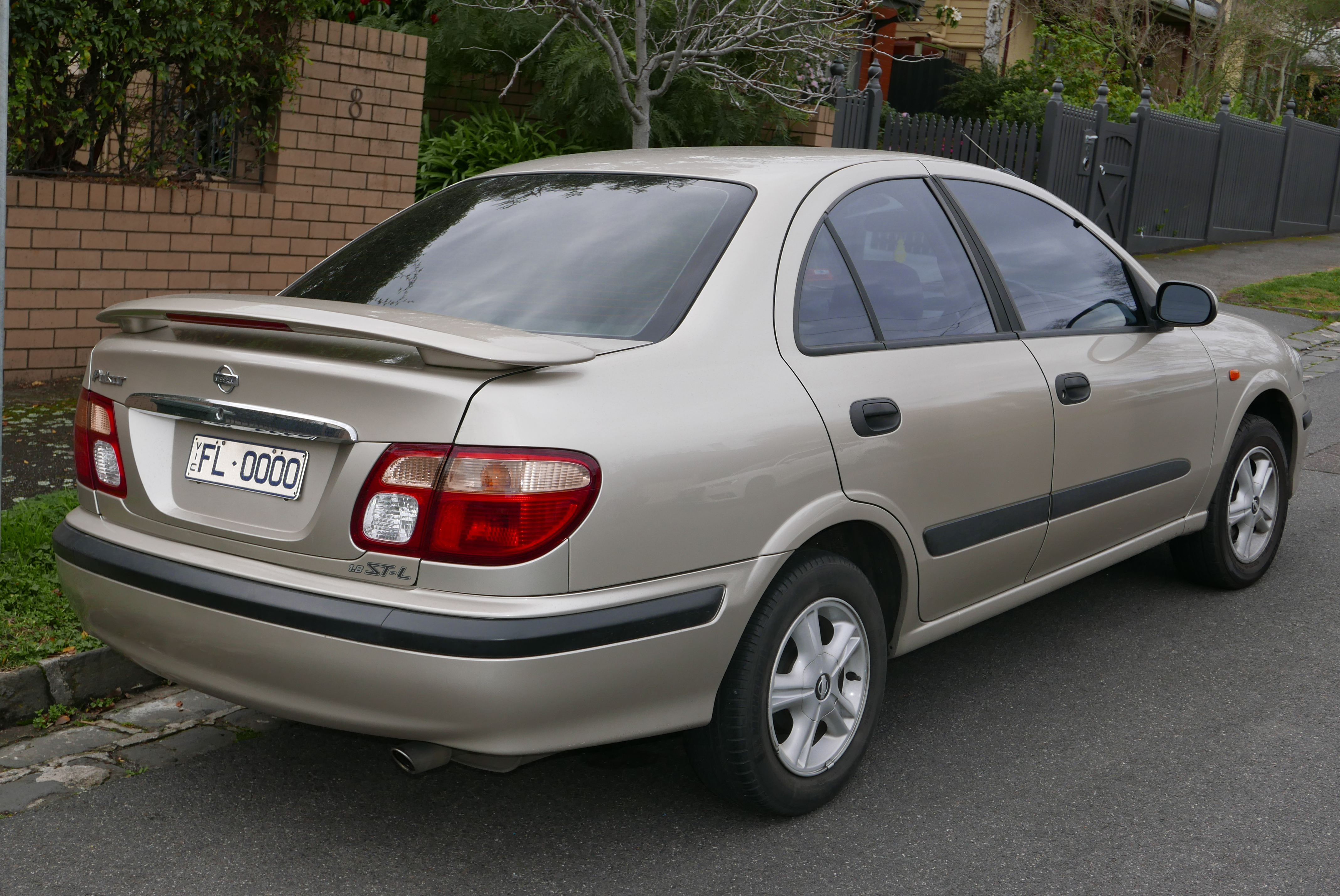 2003 Nissan Pulsar (N16) ST-L sedan. Photographed in Kew, Victoria, Australia. Vehicle registration enquiry resultsJurisdictionVictoriaRegistrationFL0000Chassis codeJN1CBAN16A0058771Engine codeQG18294351Compliance date2003-03Year of manufacture2003